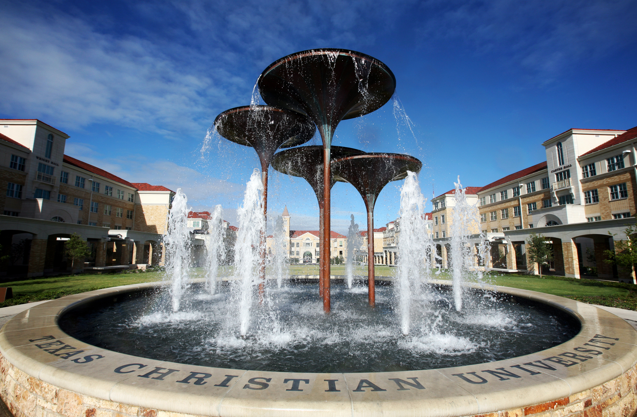 TCU's Frog Fountain located in the Campus Commons area across from the Brown-Lupton University Union.